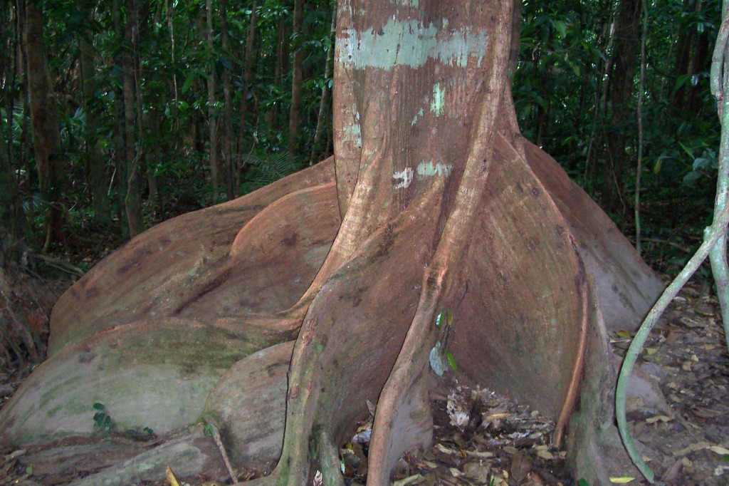 Dysoxylum_pettigrewianum, Spurwood at Mossman Gorge, Daintree River National Park, Qld, Australia